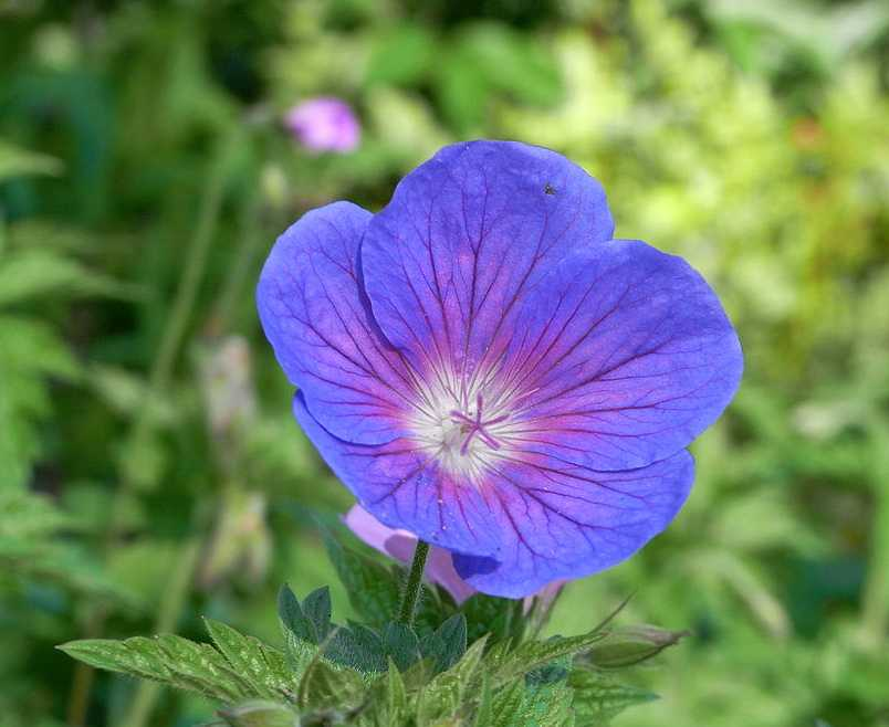 Geranium 'Johnson's Blue'